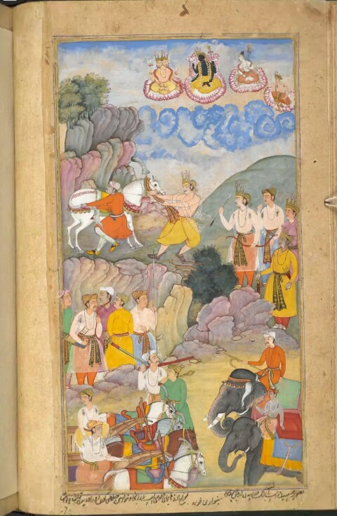 Aswamedhikaparwa